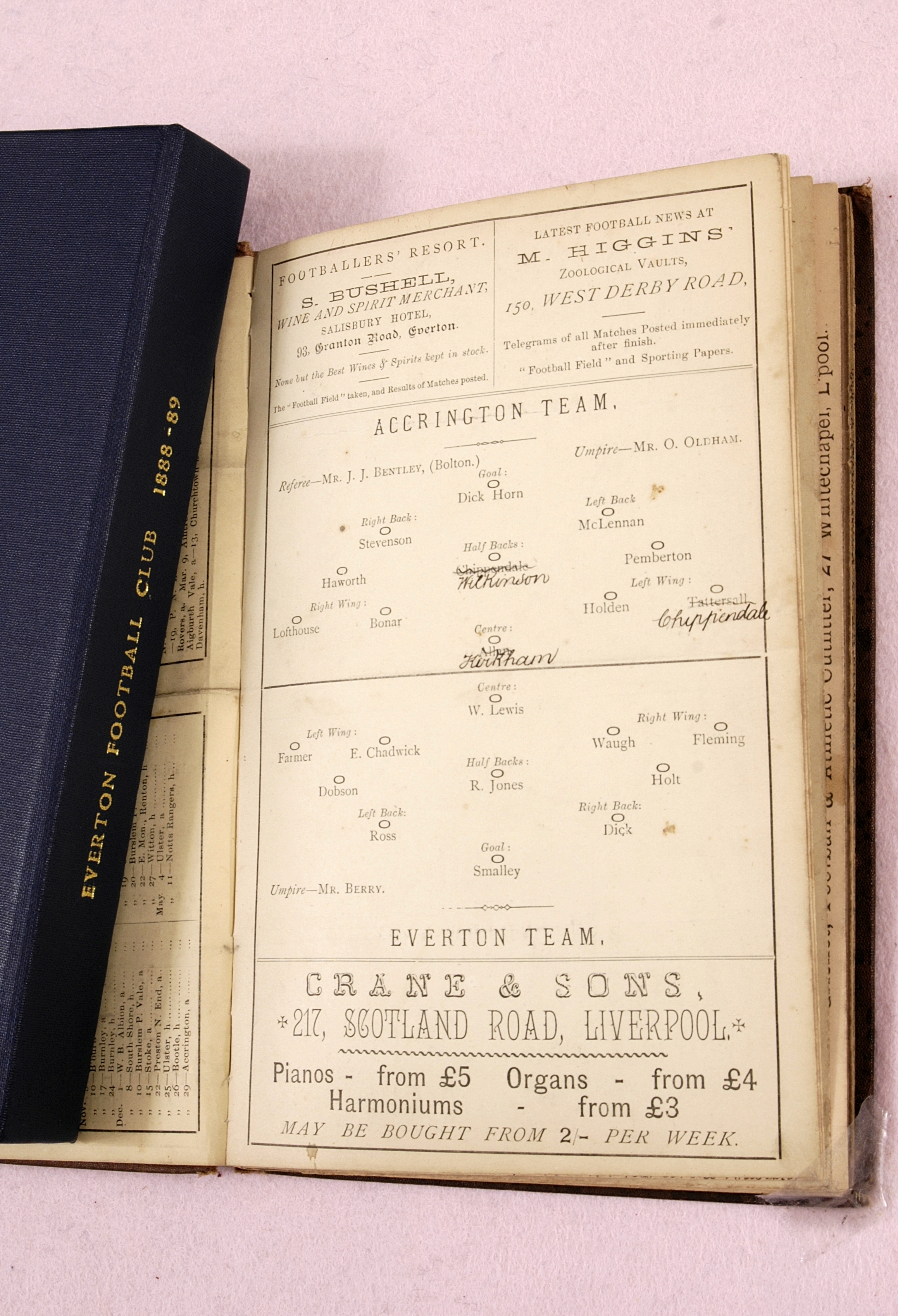 Official programme from Everton F.C. for their first ever League match which was against Accrington F.C.